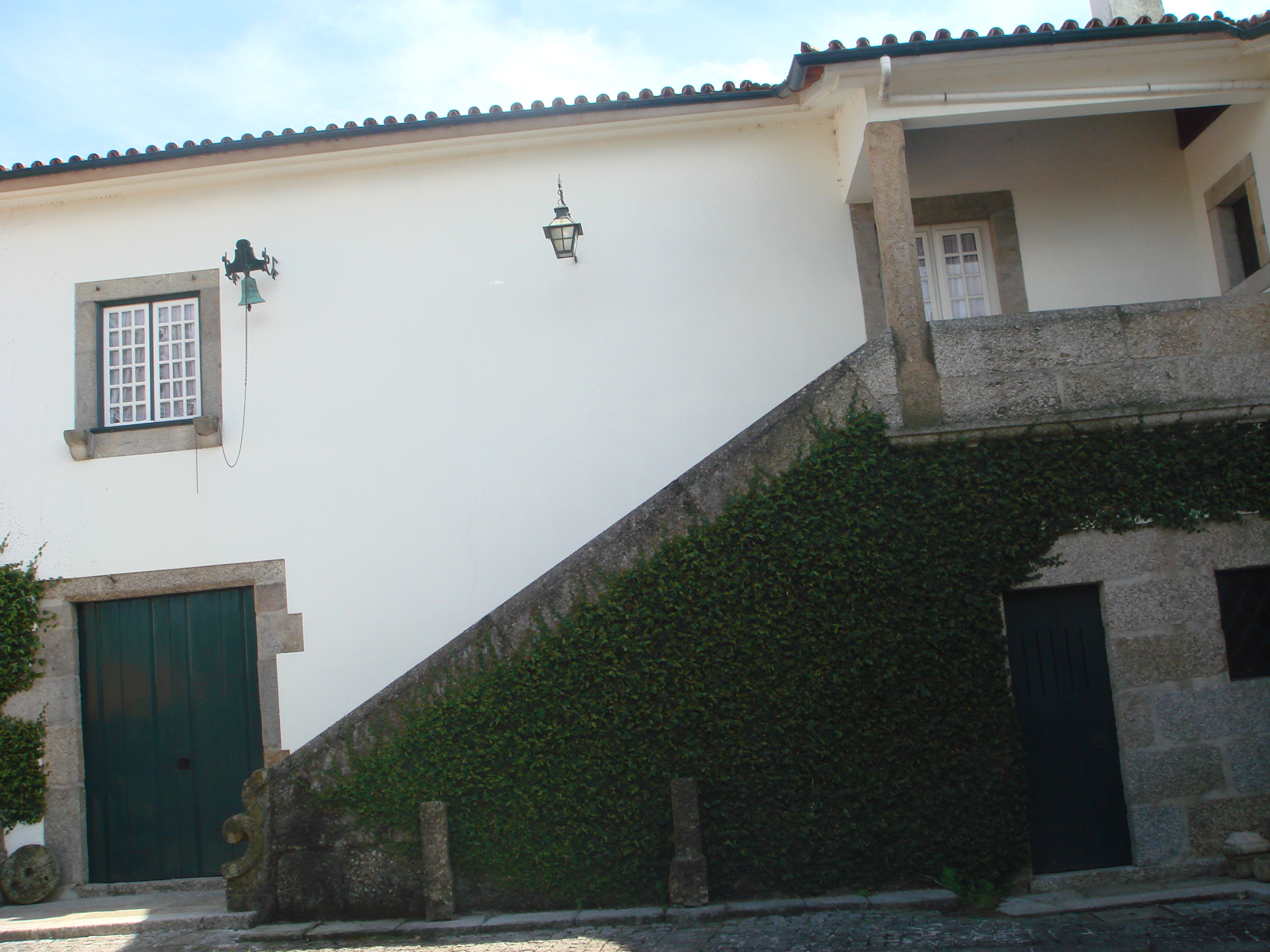 House of Quintã, in Esporões, Braga, Portugal